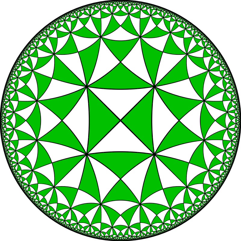 Hyperbolic Order-5 tetrakis square tiling